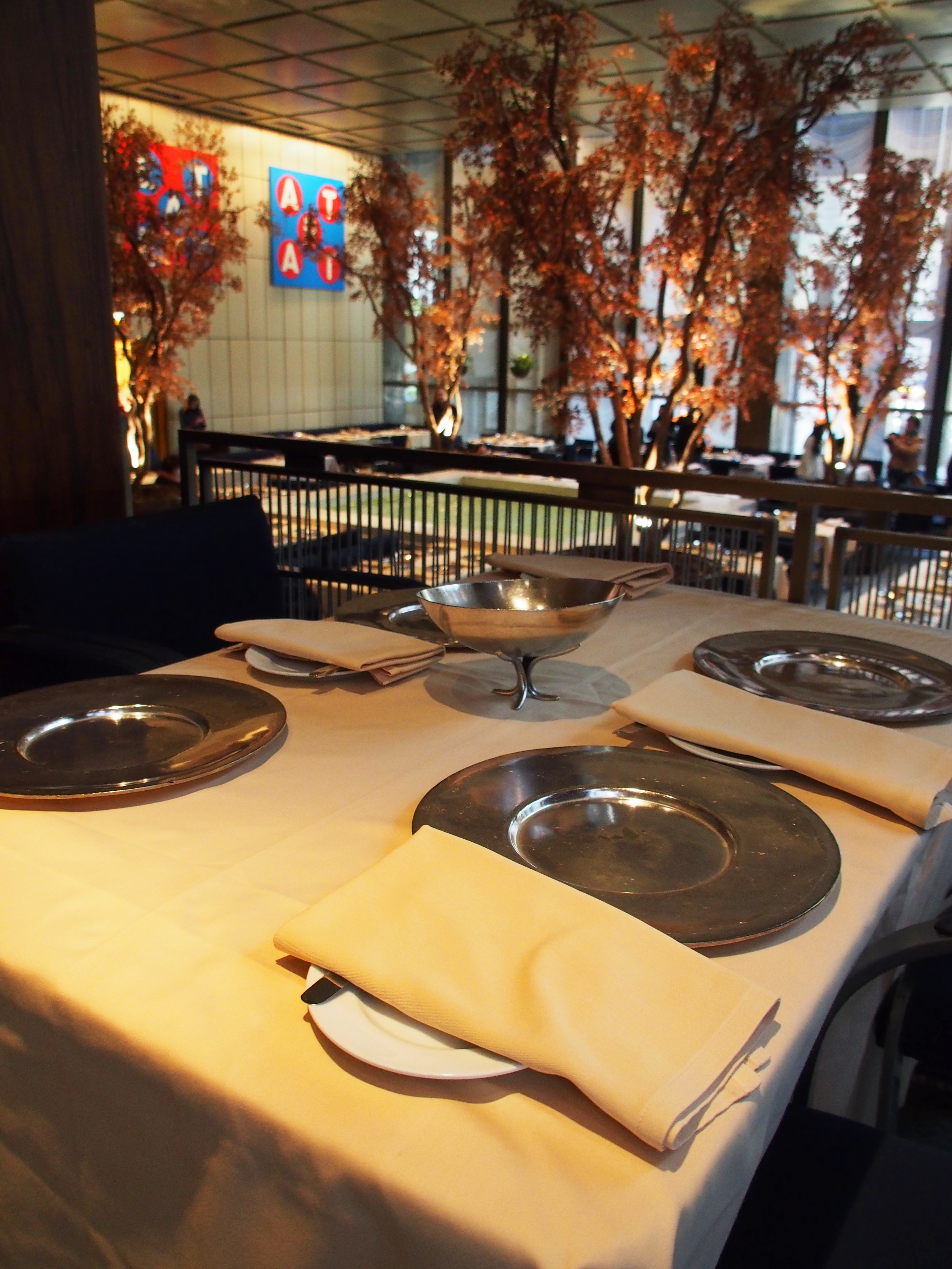 A close-up of a place setting. Site: Four Season Restaurant